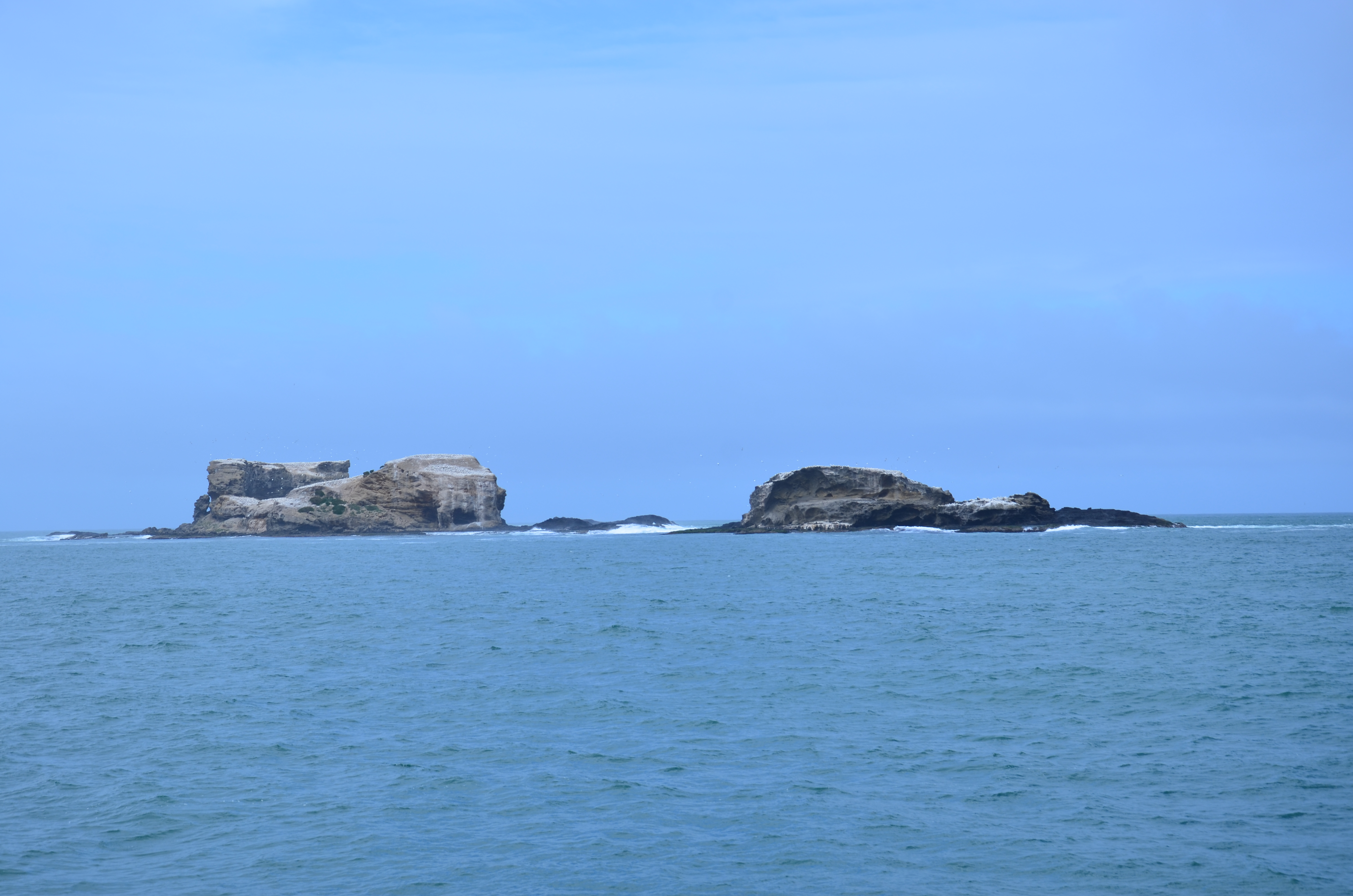 Image taken aboard Southern Explorer of Lawrence Rocks rocky islets in Western Victoria.